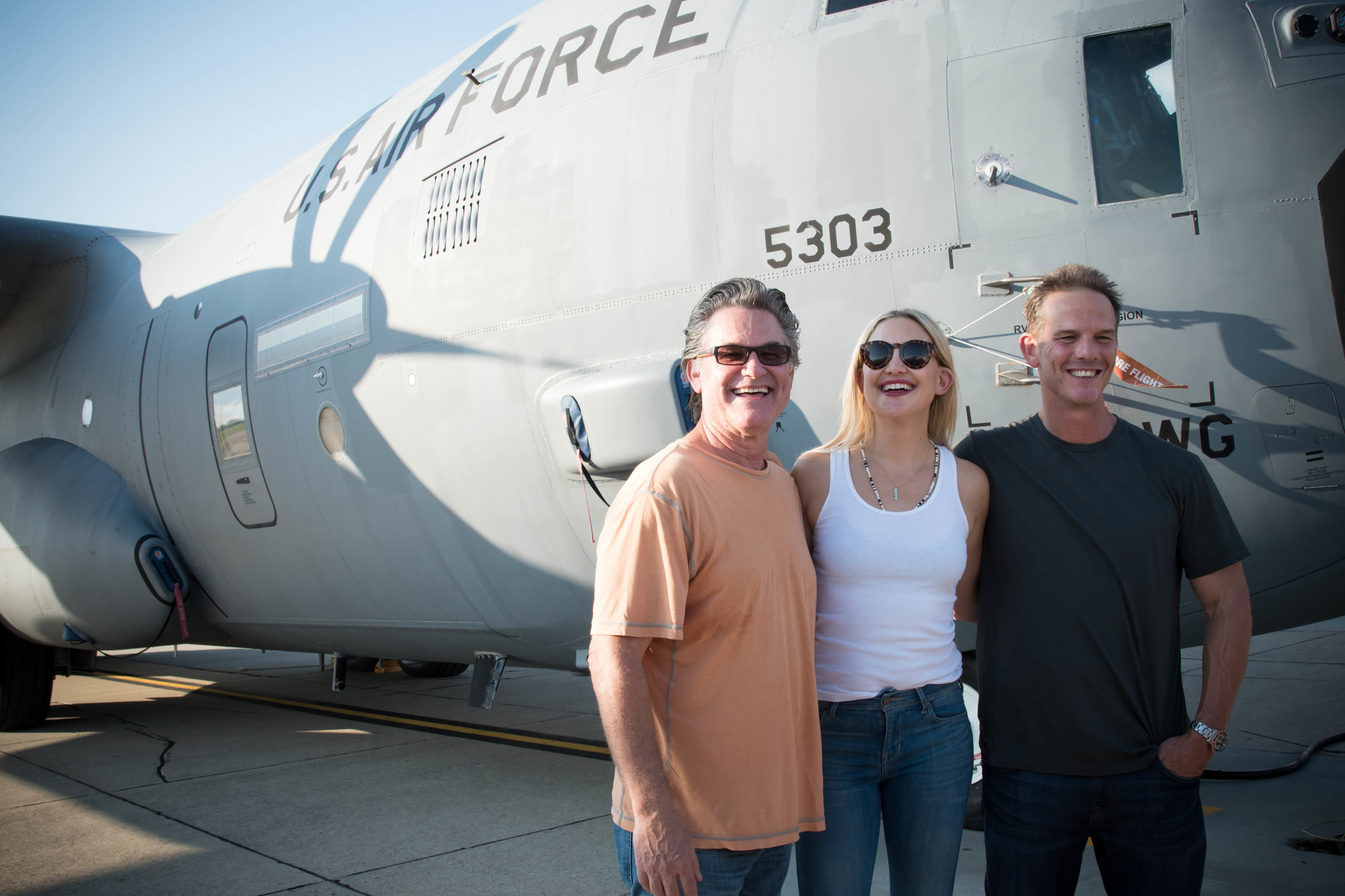 Director Peter Berg and actors Kurt Russel and Kate Hudson visited Keesler Air Force Base Sept. 10 as part of a prescreening of their new film, Deepwater Horizon. (U.S. Air Force photo/Senior Airman Heather Heiney)